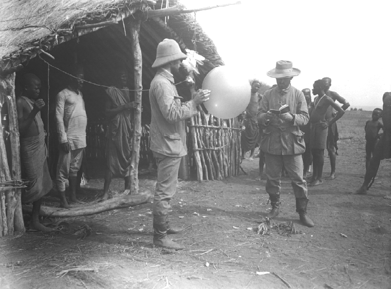 Preparation of the ascent of a ceiling balloon during the German aerological Expedition to East Africa